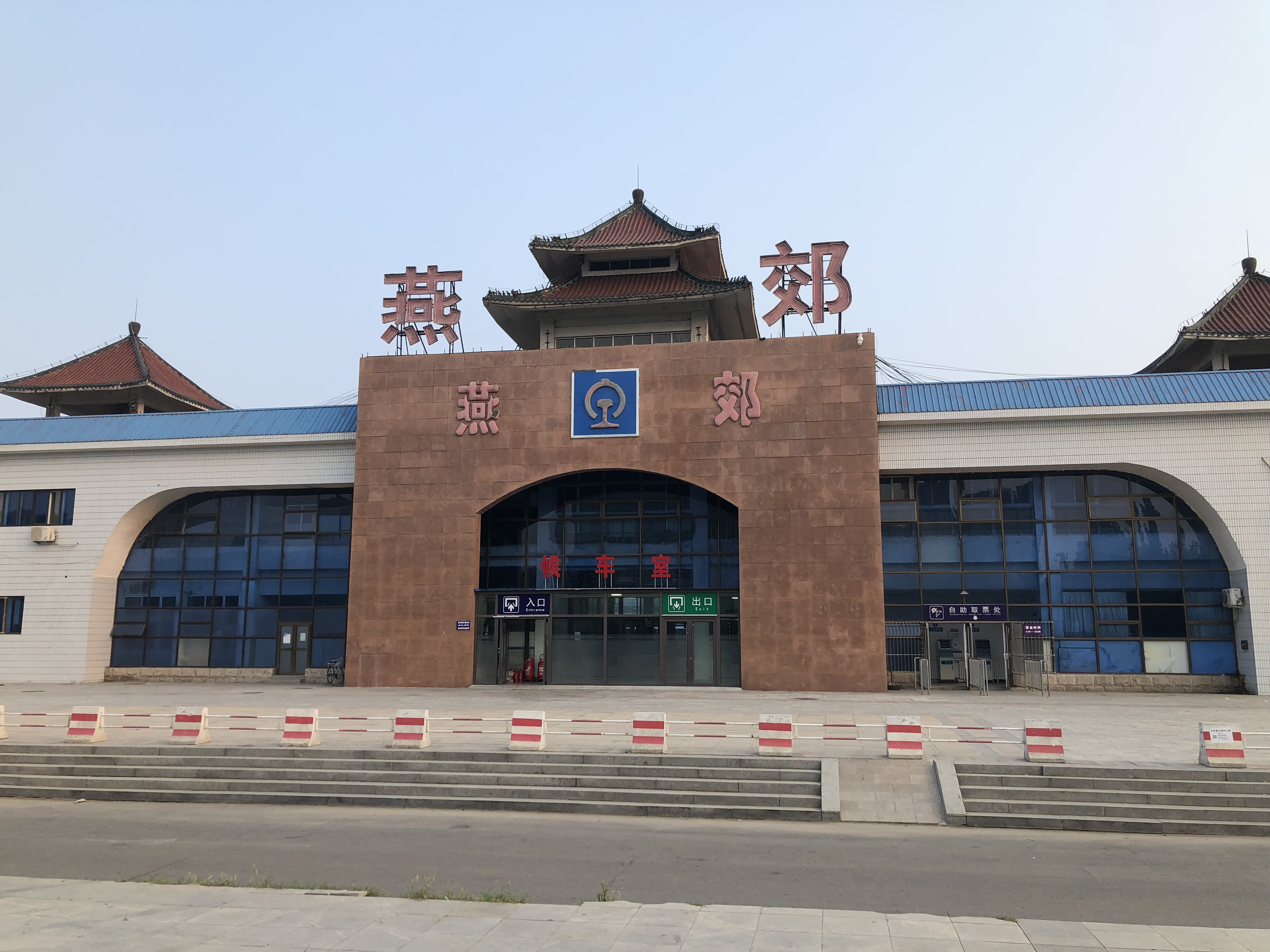 Yanjiao Railway Station